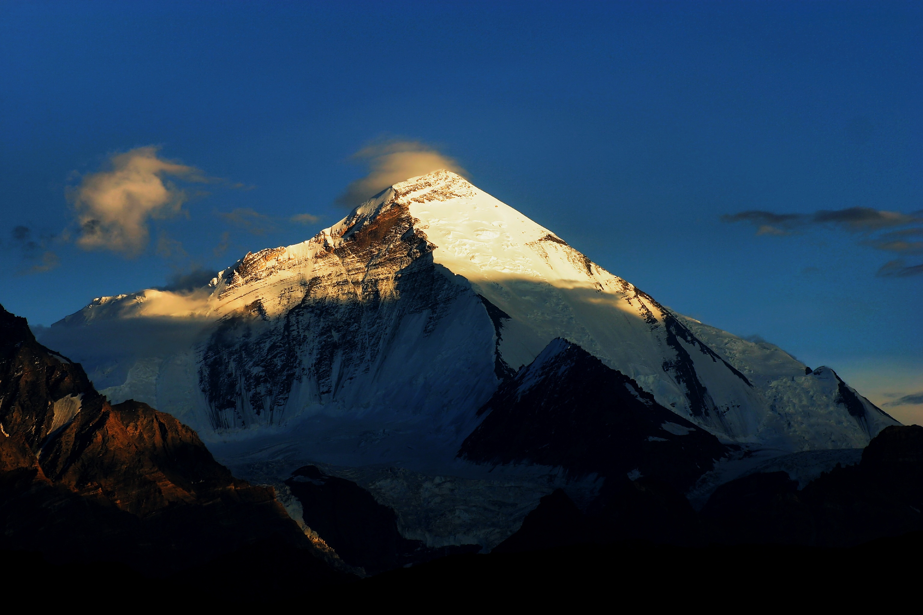 The beautiful Nun Kun Peak at Sunset Time